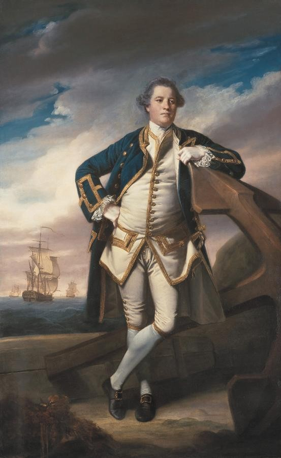 Captain Philemon Pownoll, officer of the Royal Navy